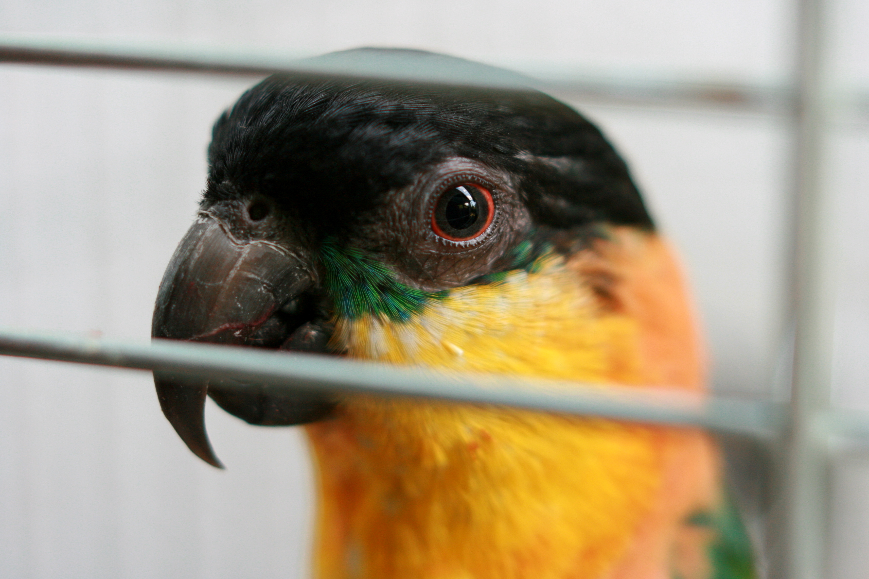 Black-headed Parrot (Pionites melanocephalus) also known as the Black-headed Caique, Black-capped Parrot or Pallid Parrot.